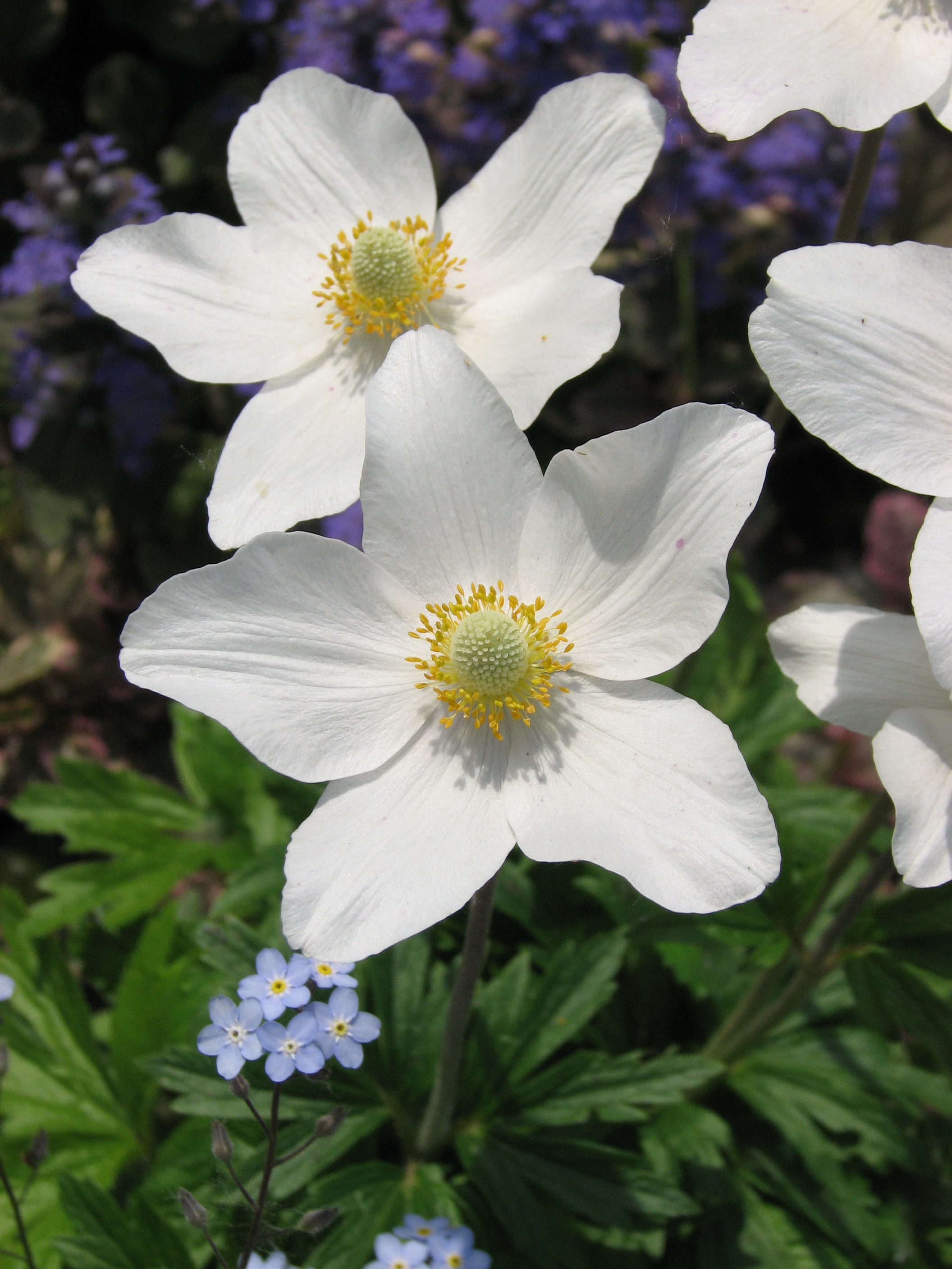 Wood anemone (Anemone nemorosa cv.). From the collection of the Main Botanical Garden of Academy of Sciences in Moscow (perennials plot).